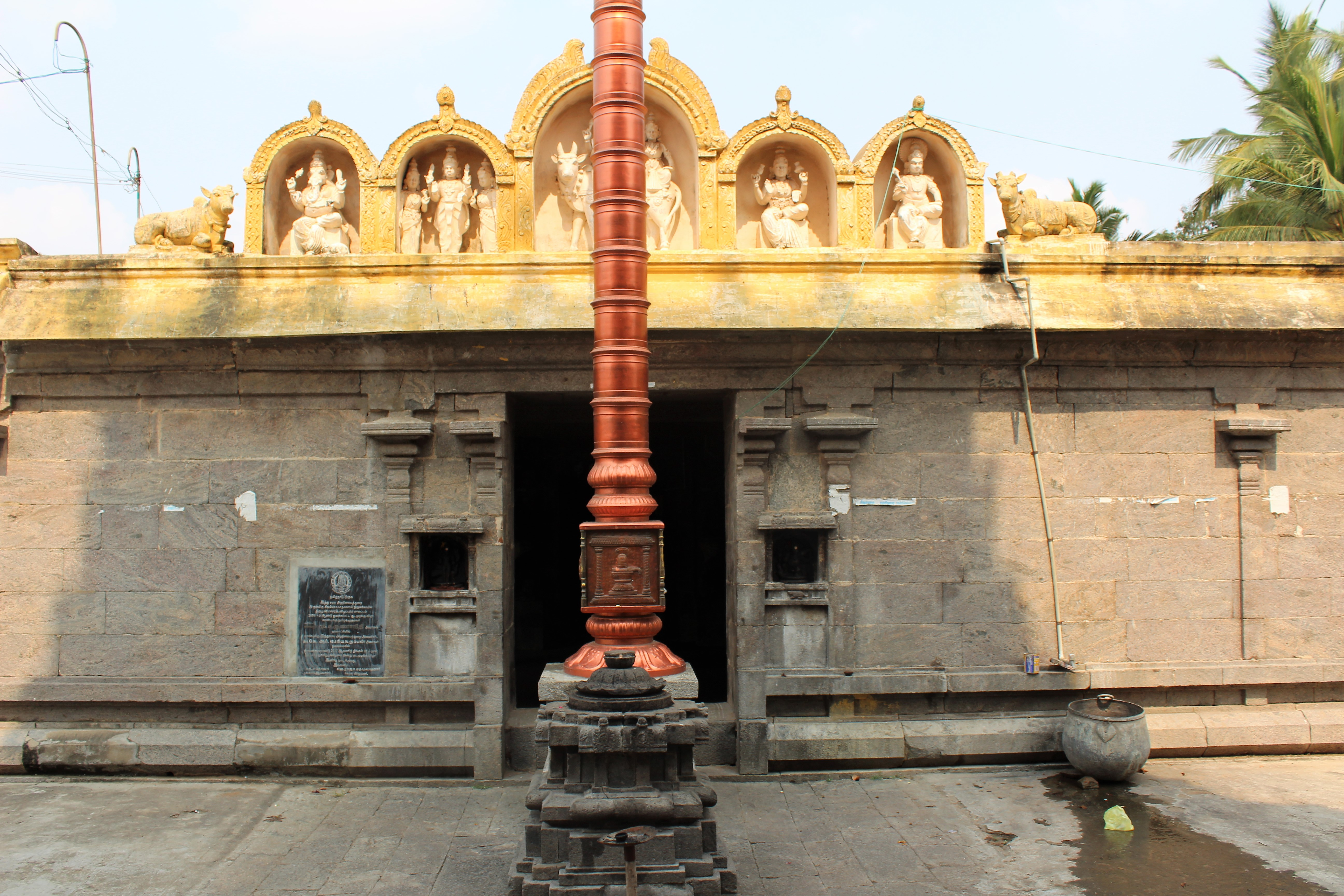 Sivalokanathar temple, Thirumundeeswaram